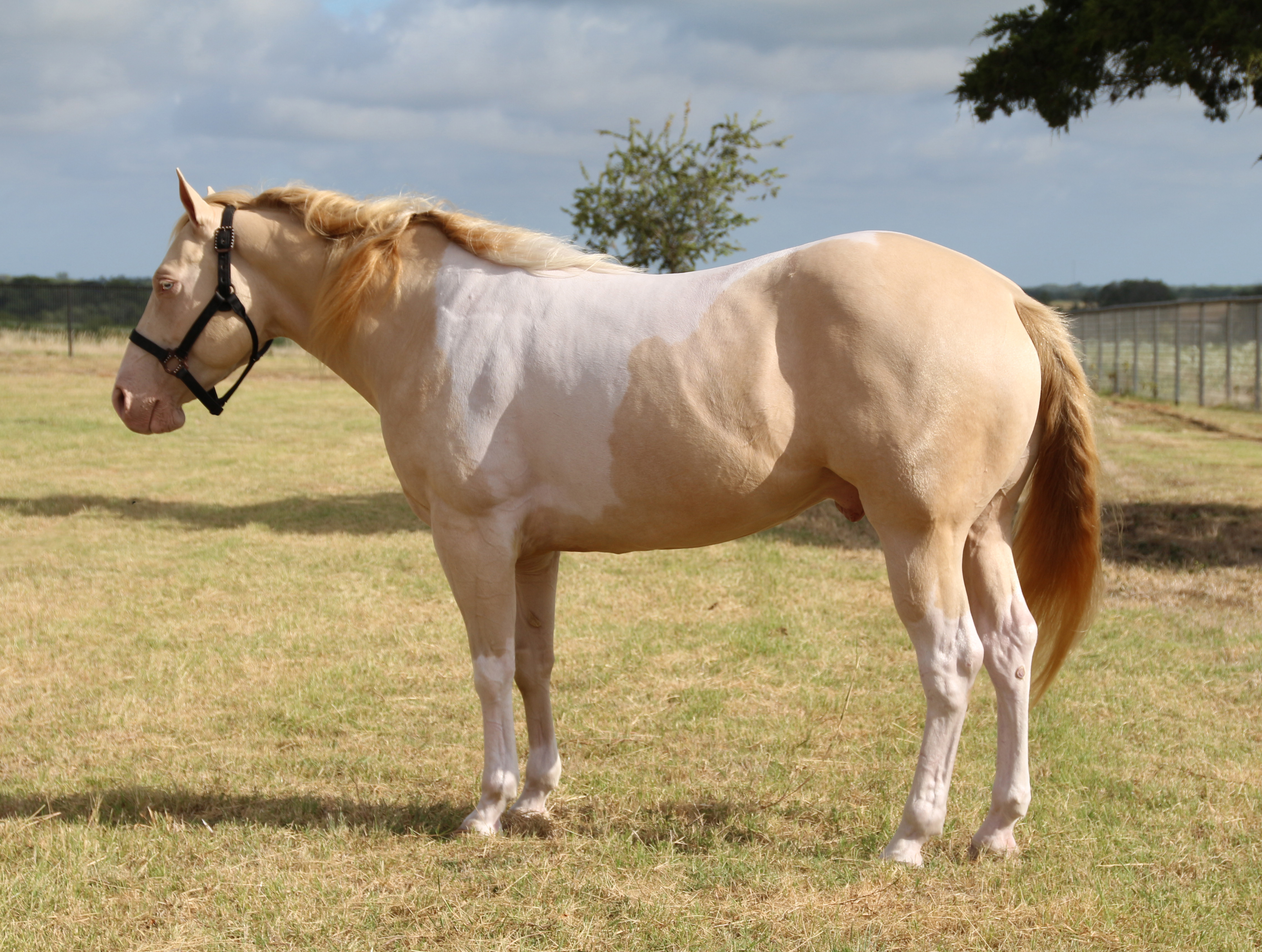 Dun tobiano paint with glass eyes on a Texas ranch.